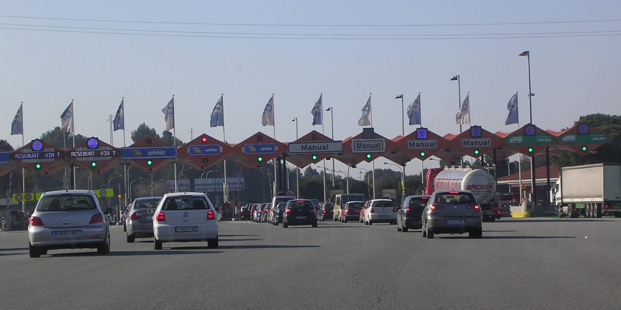 Toll gate on the AP-7 highway near Martorell, Barcelona, Spain. Taken with my Nikon coolpix 3100